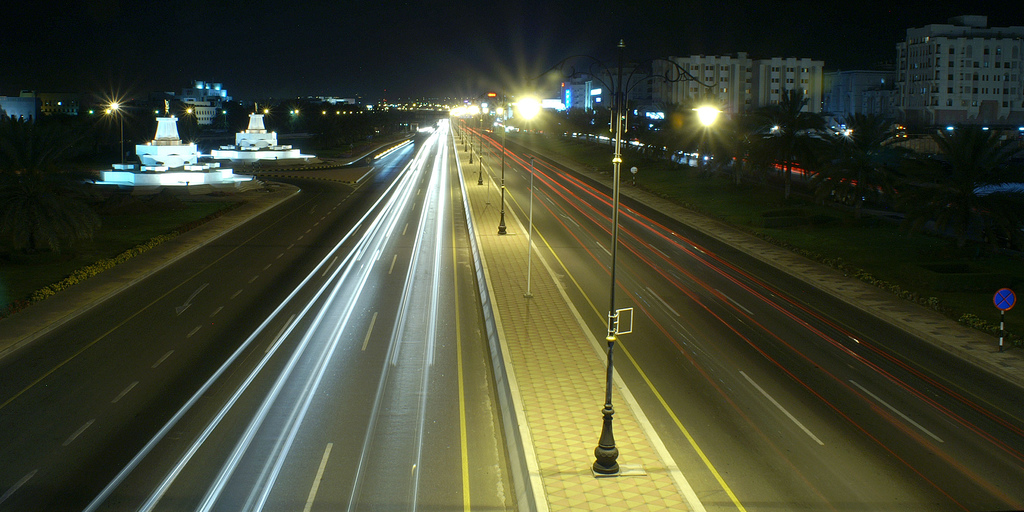 SeebHighway (Oman)